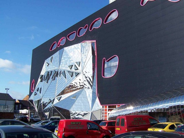 Exterior, The Public, West Bromwich The much-talked about 'Art Gallery' which was built as the first part of a town-centre regeneration scheme.The future of the building is now in doubt following escalating costs and limited use.